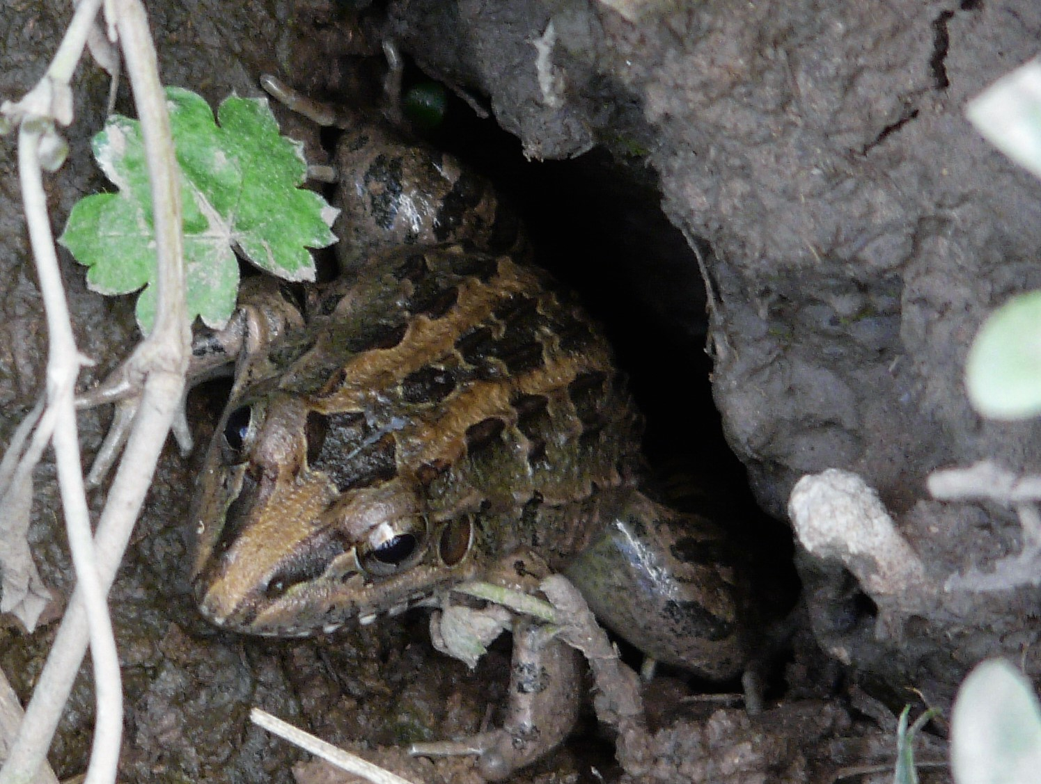 The Creole frog (Leptodactyllus latrans) is an amphibian that we share with several countries in South America